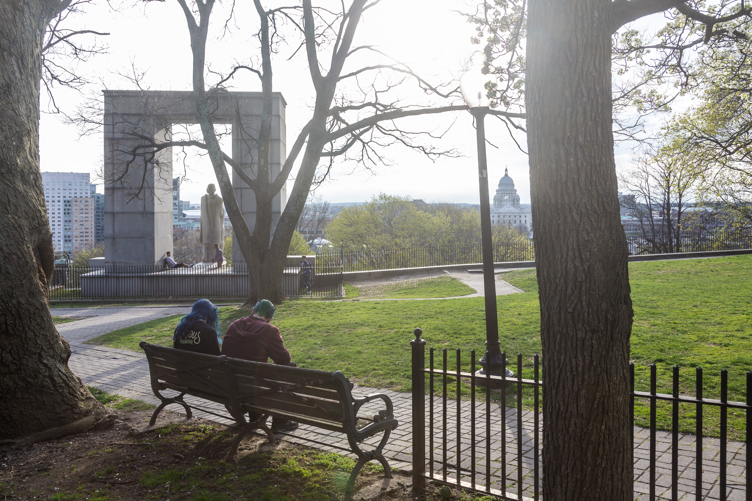 Prospect Terrace Park, Providence Rhode Island